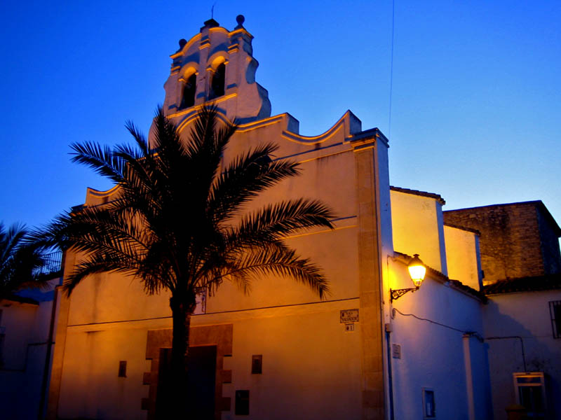 Photo of El Salvador church, Els Poblets, county Marina Alta, Region of Valencia, Spain.